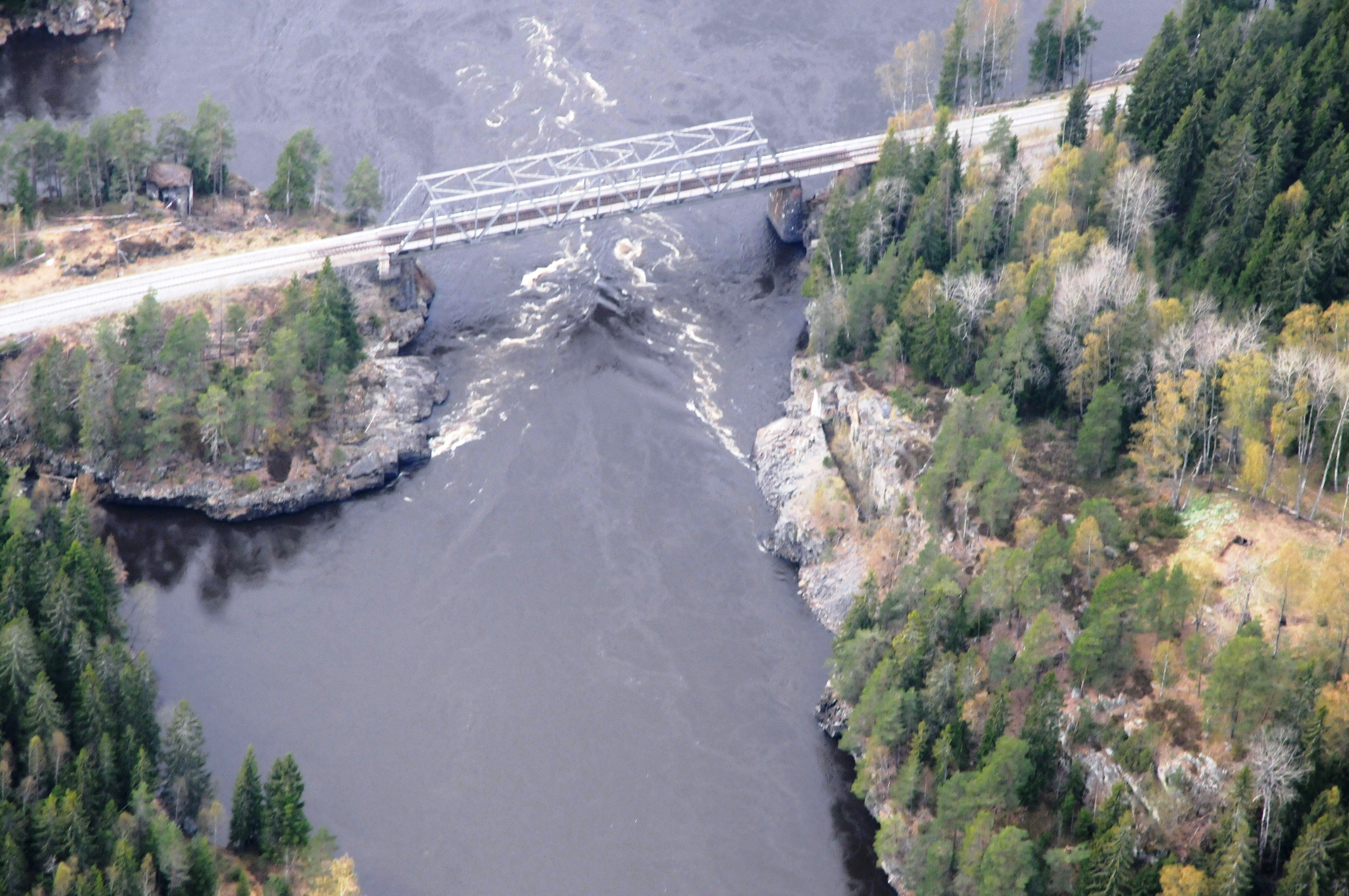 Langnes batteri